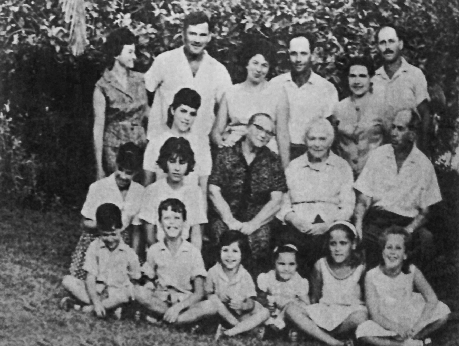 All the family together